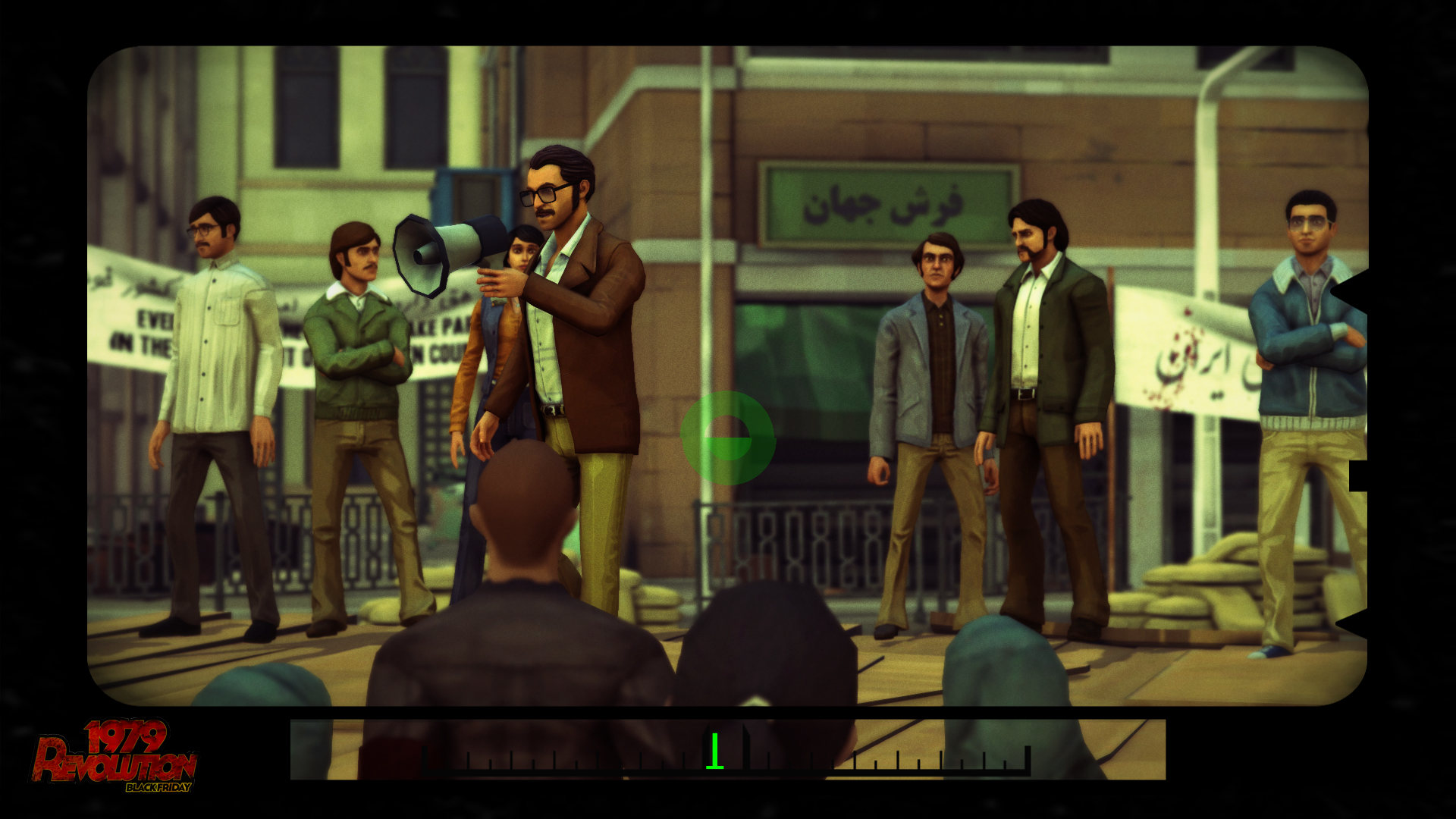 Screenshot from 1979 Revolution: Black Friday press kit